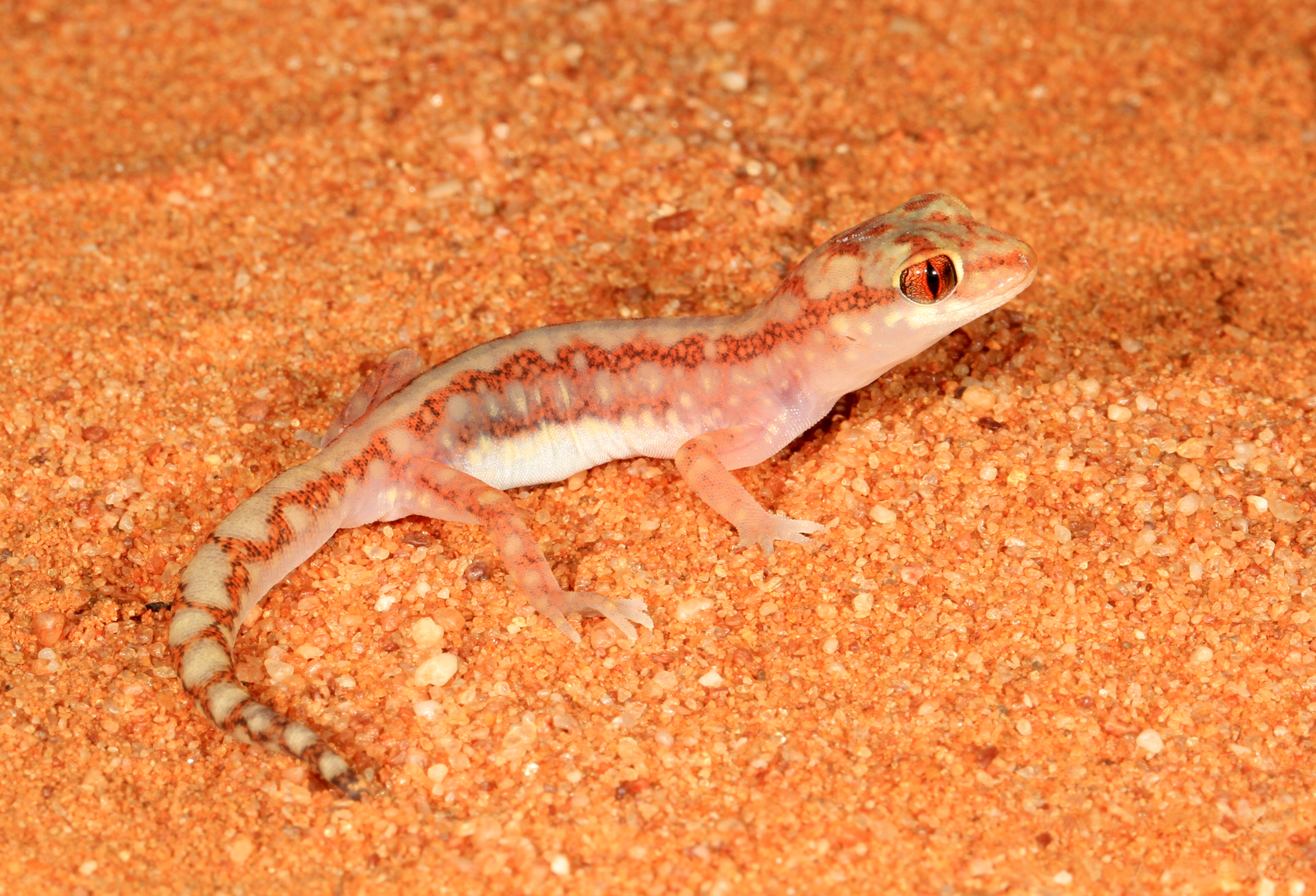 Murray Mallee, South Australia.